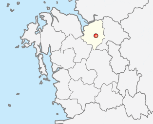 Map of Asan in South Korea